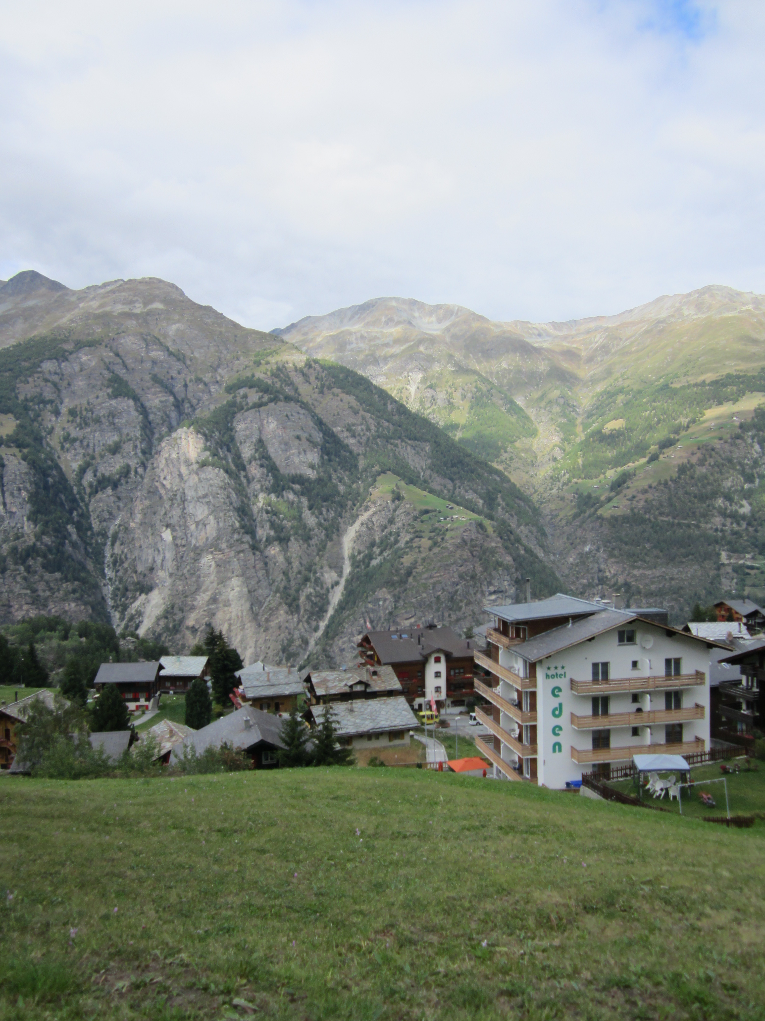 Grächen, Valais, Switzerland